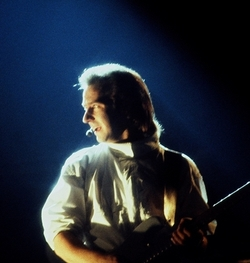 Midge Ure in concert with Ultravox @ Bristol Hippodrome